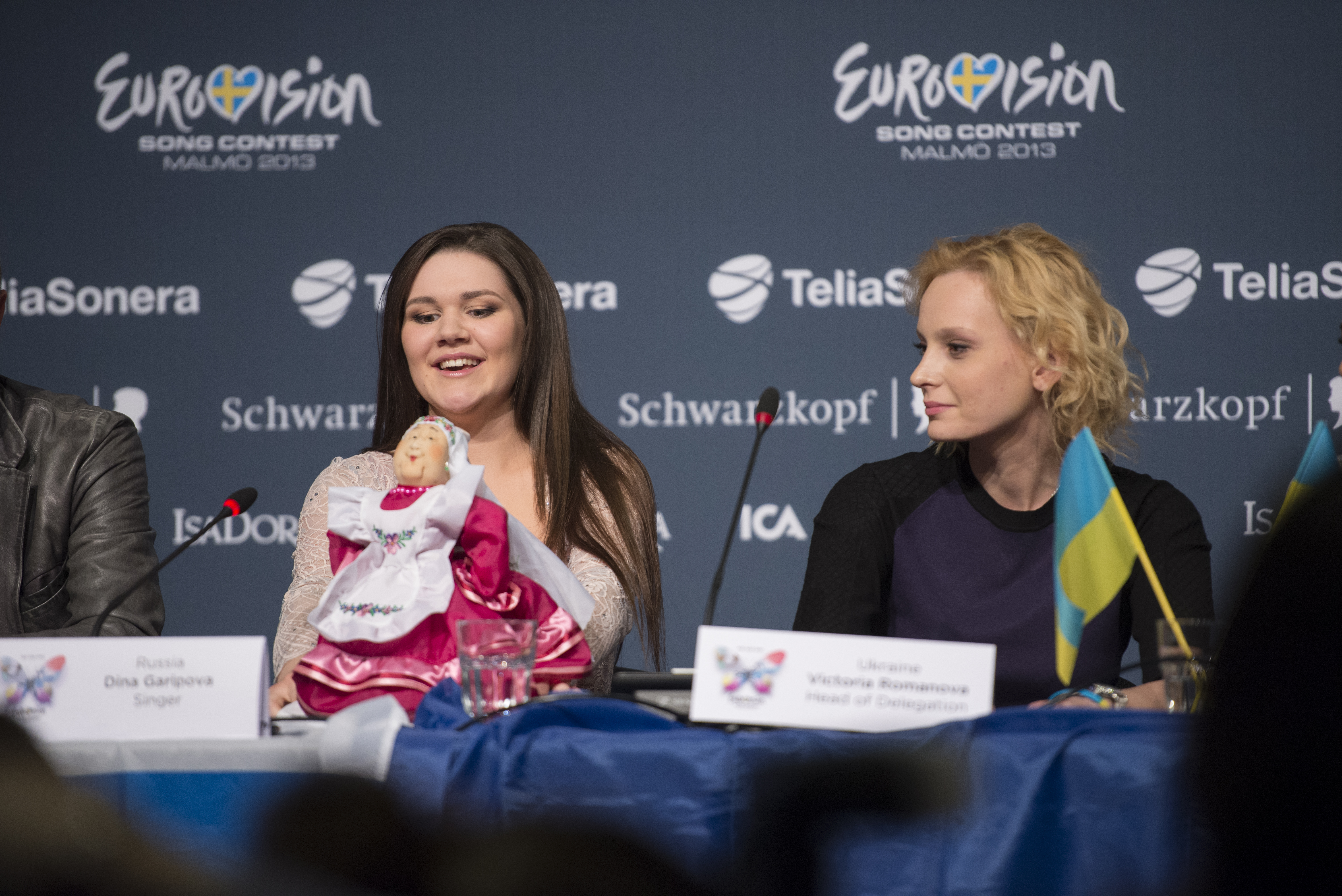 Dina Garipova at a press conference during the Eurovision Song Contest 2013 in Malmö. (Help translate this text)